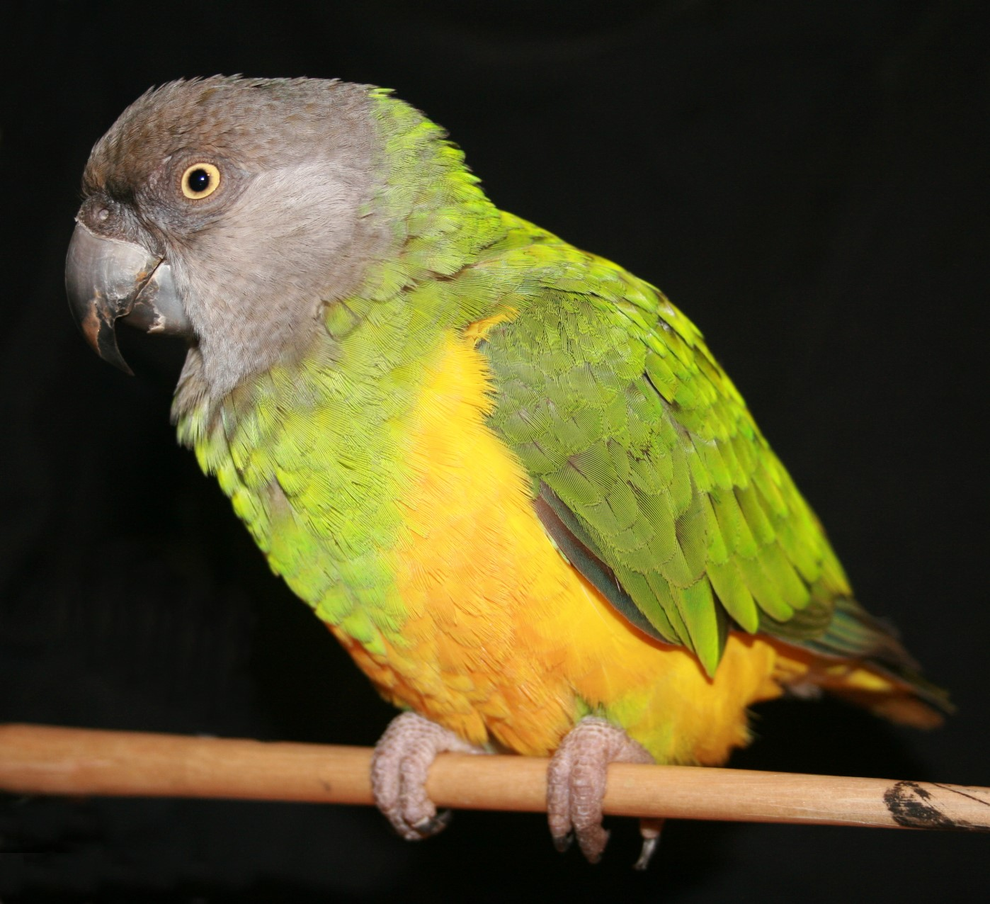 Senegal Parrot